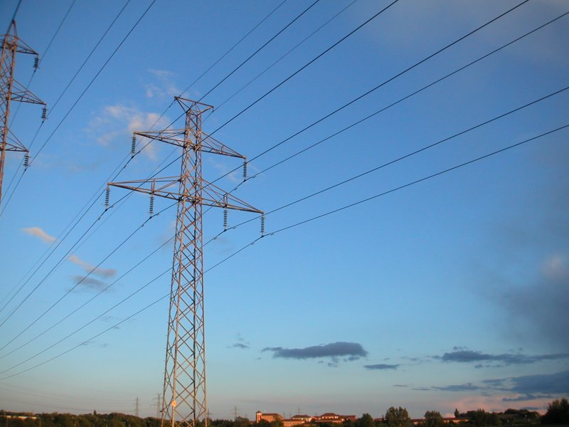 Electric transmission line in Lund, Sweden